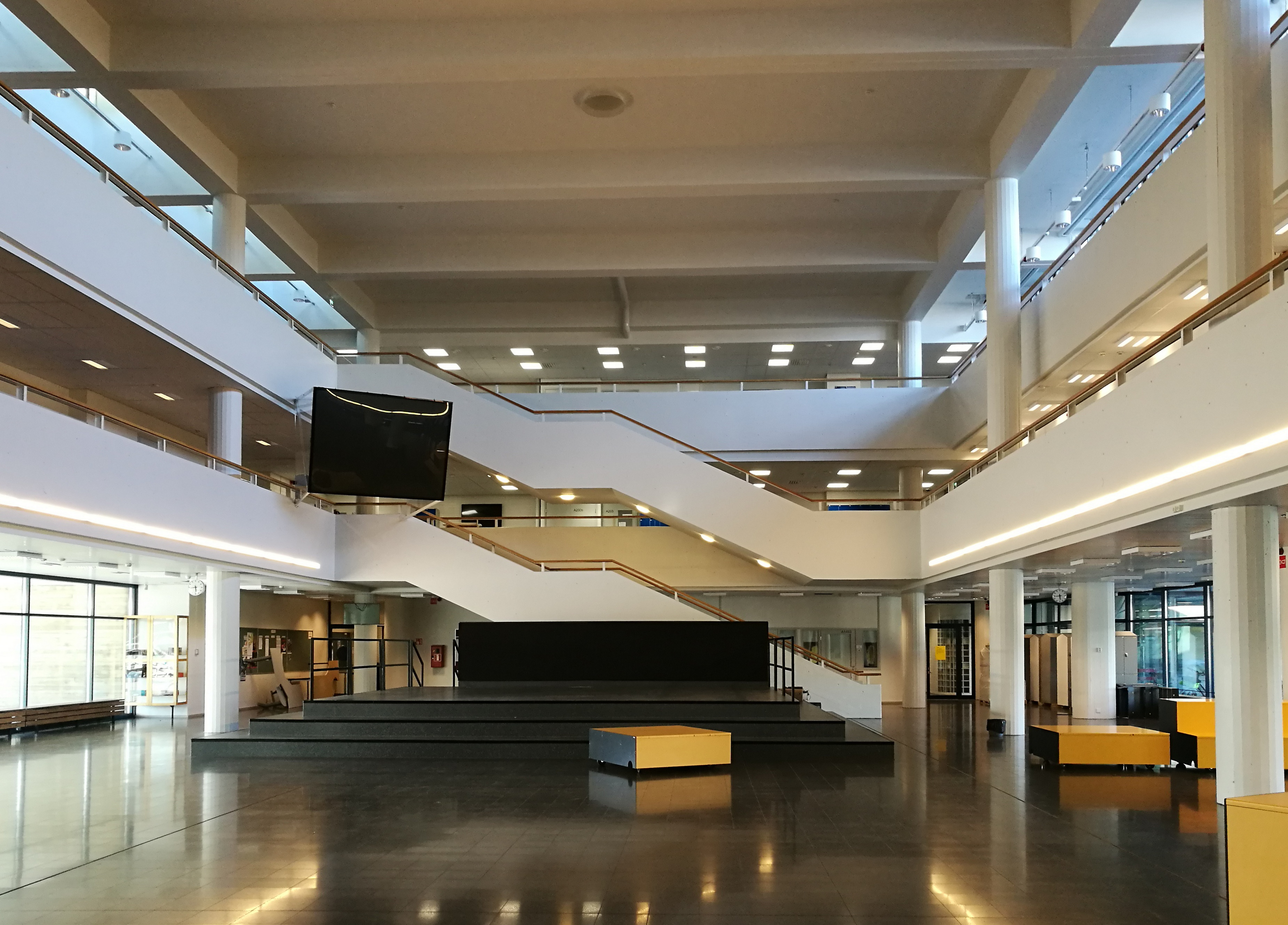 Interior of the Pohjakartano building in Oulu.